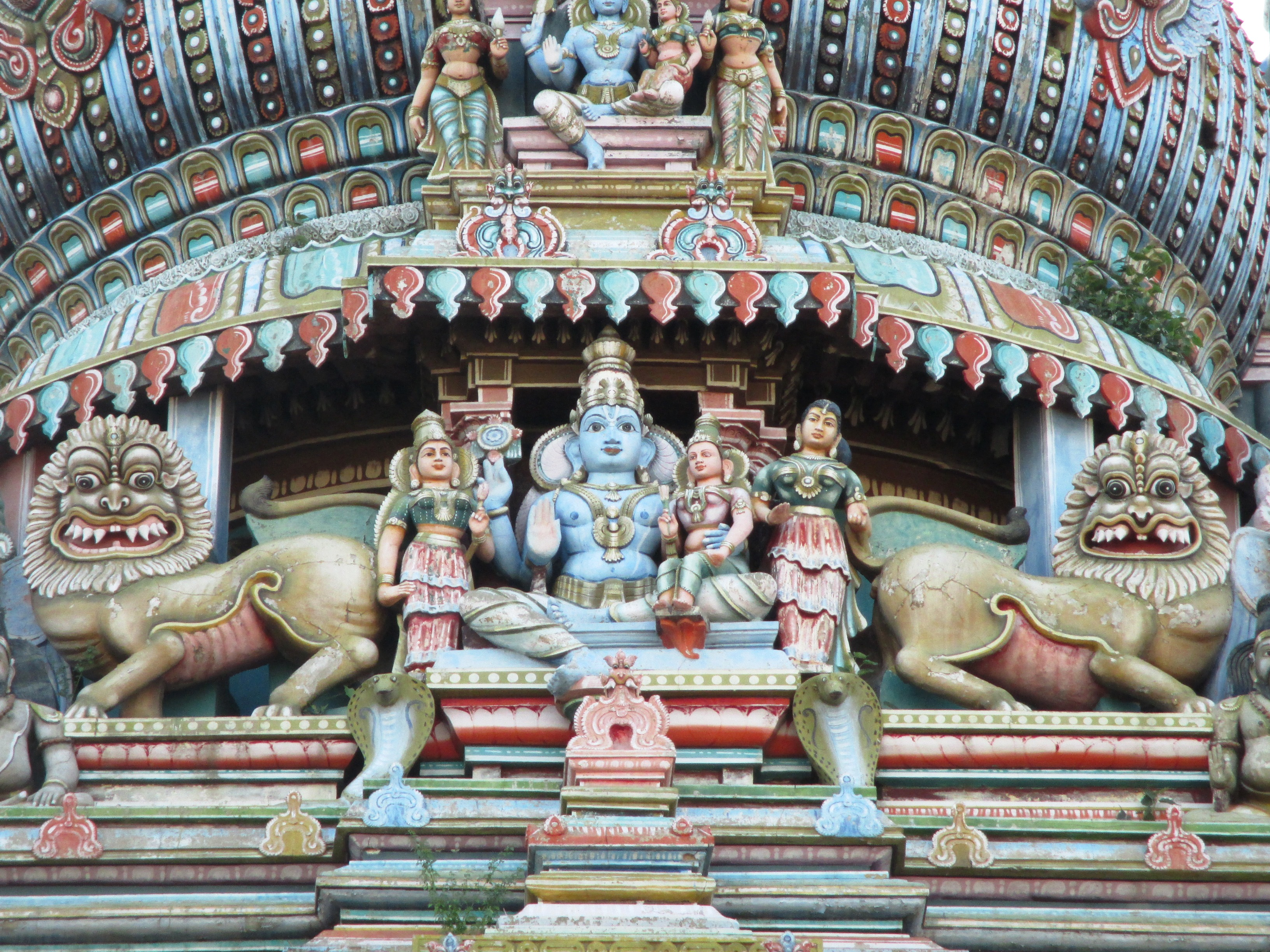 Koodazhagar